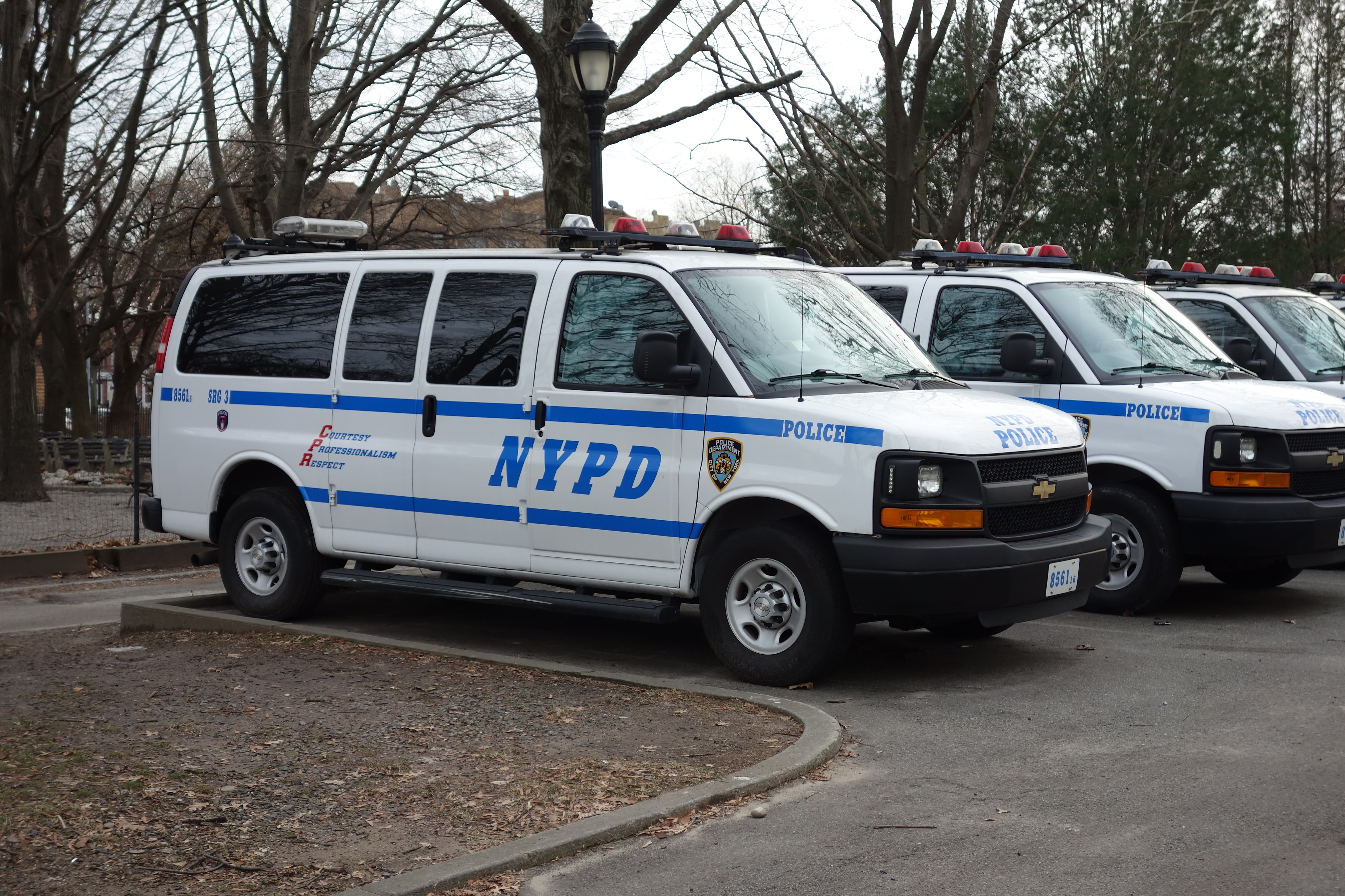 Several NYPD Chevrolet Express vans parked behind the Parade Ground Police Station at the southwest corner of the Parade Grounds, at Caton Avenue and Stratford Road (East 11th Street) in Prospect Park South (Flatbush), Brooklyn.